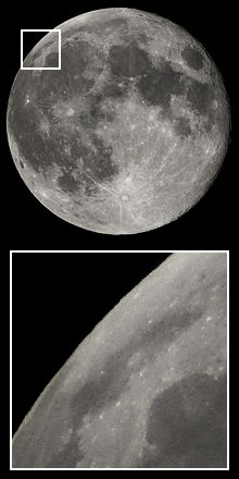 Location of Sinus Roris on the Moon. DO NOT USE CURRENT VERSION OF FILE, THIS IMAGE IS NOT CORRECT AND SHOULD BE REPAIRED